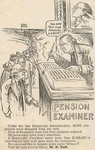 Postcard picture: William Howard Taft campaign postcard for the United States presidential election showing line of pensioners before a pension examiner with caption: "Under the last Democratic Administration, 40,000 pensioners were dropped from the rolls." The sign in the far distance says "Poor house".